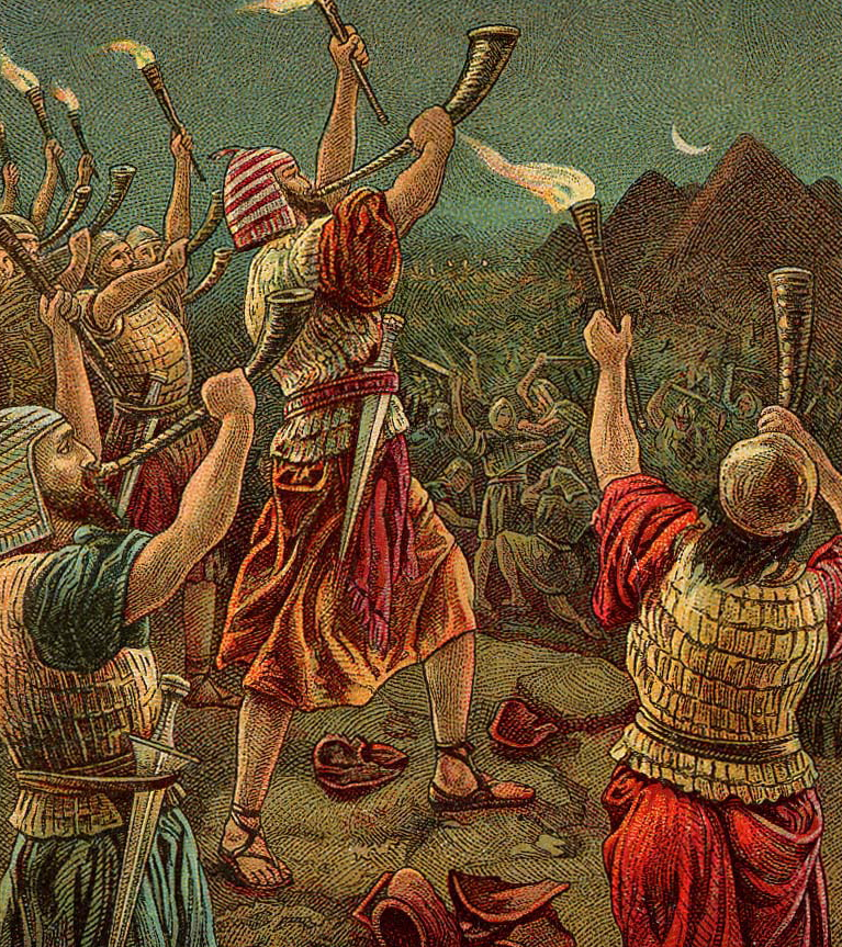 Gideon and His Three Hundred; as in Judges 7:9-23; illustration from a Bible card published by the Providence Lithograph Company